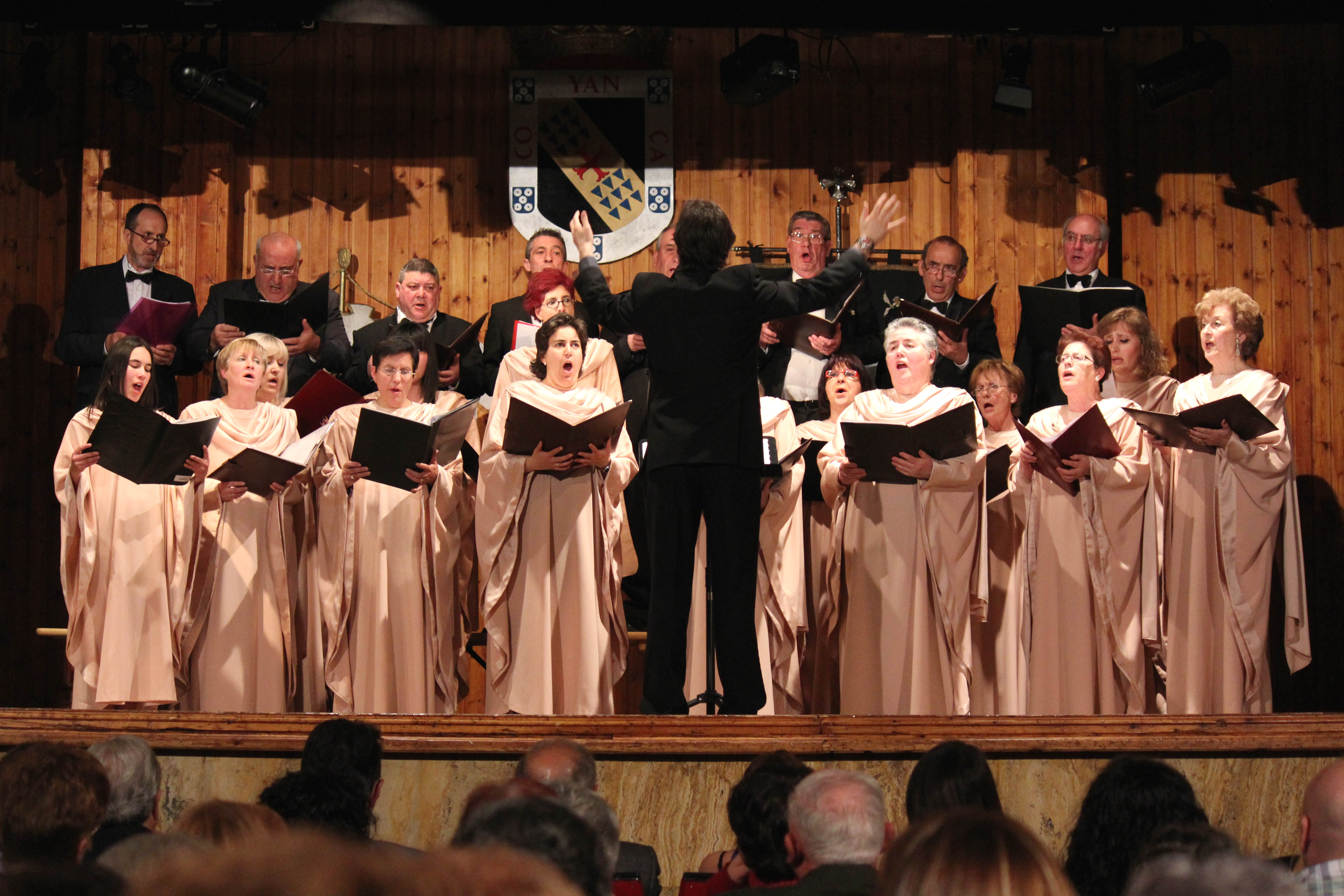 Coral Coyantina